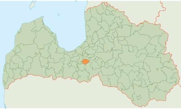 Baldone's map